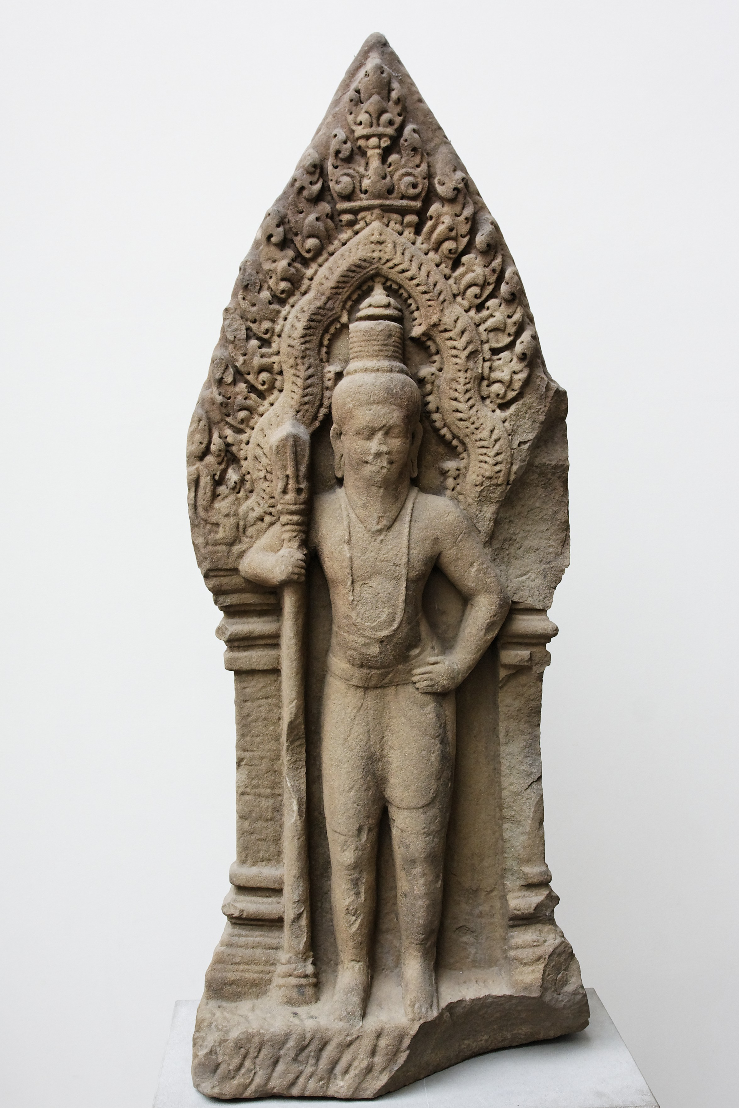 Antefixes, Cambodia, Royal Palace, Angkor Thom, style Khleang last quarter of the ninth, first quarter of the tenth century, sandstone. Musée Guimet, Paris